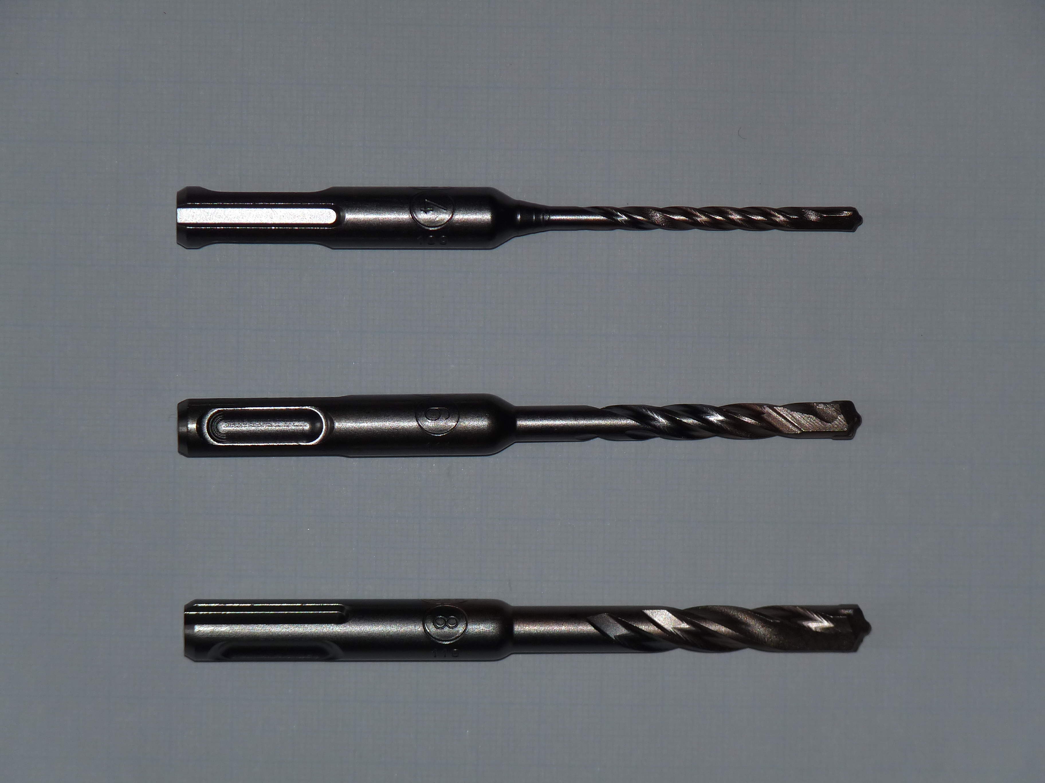 SDS plus drill bits